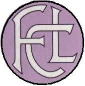 Football Club Legnano logo